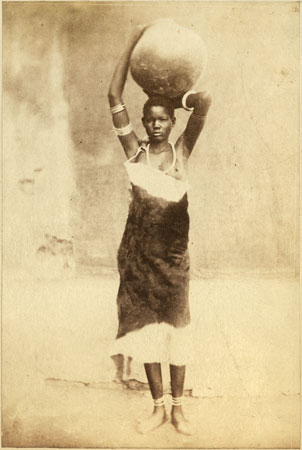 Shilluk woman holding jar